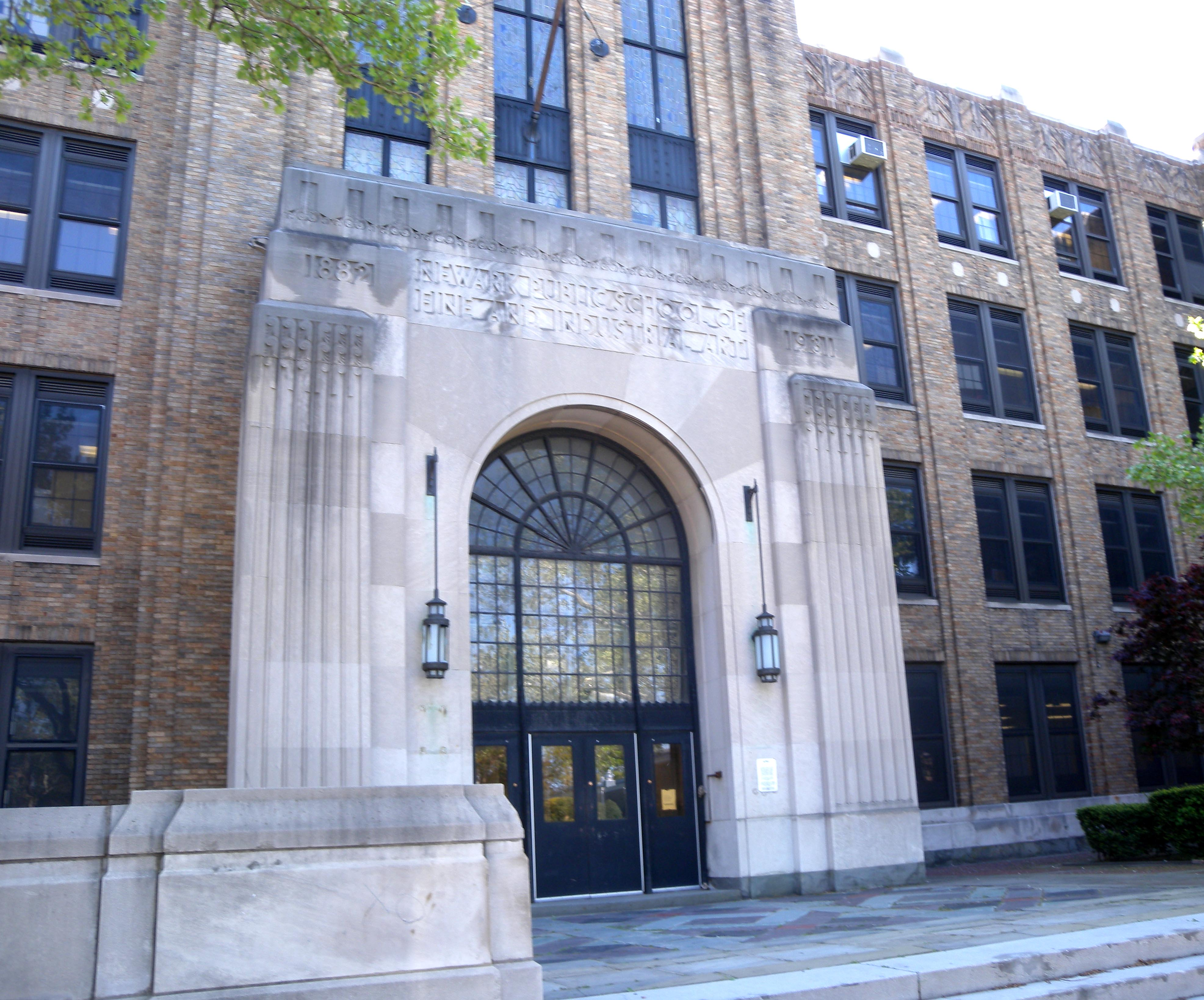 Looking southeast at Newark School of Fine and Industrial Arts on a sunny morning with blurring.